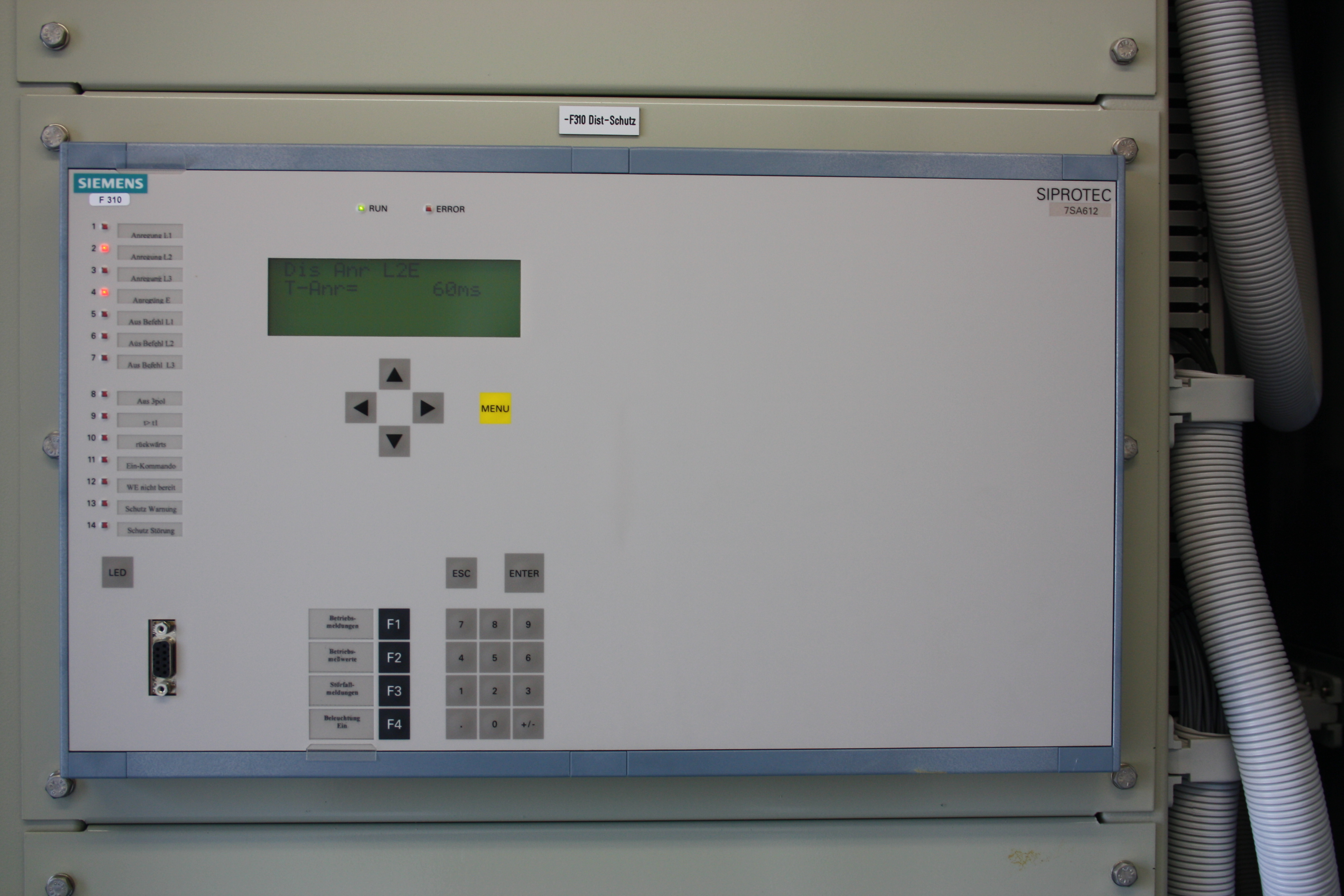 Protective Relays